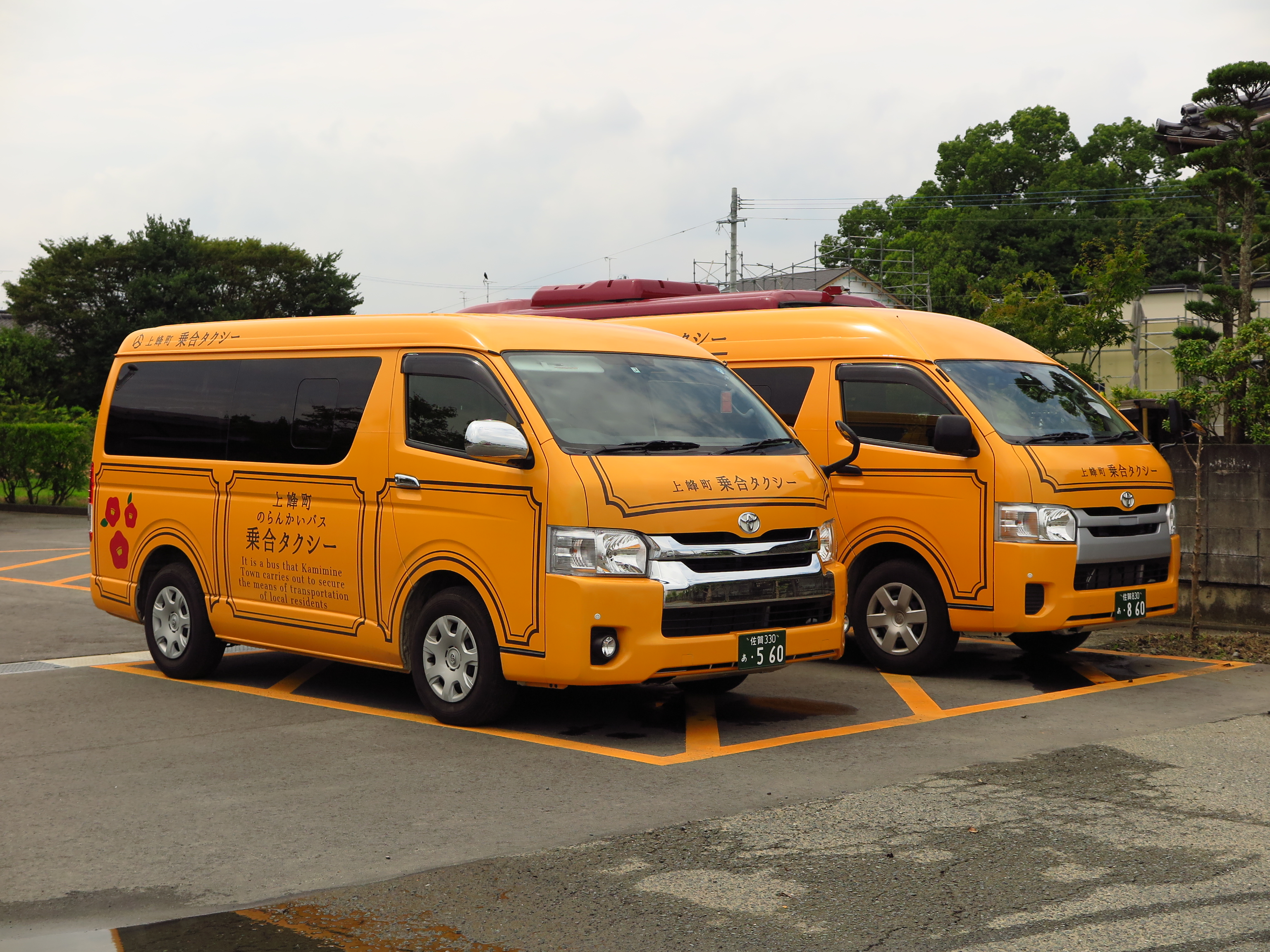 Aug 30 2019 at 'Spark Kamimine'